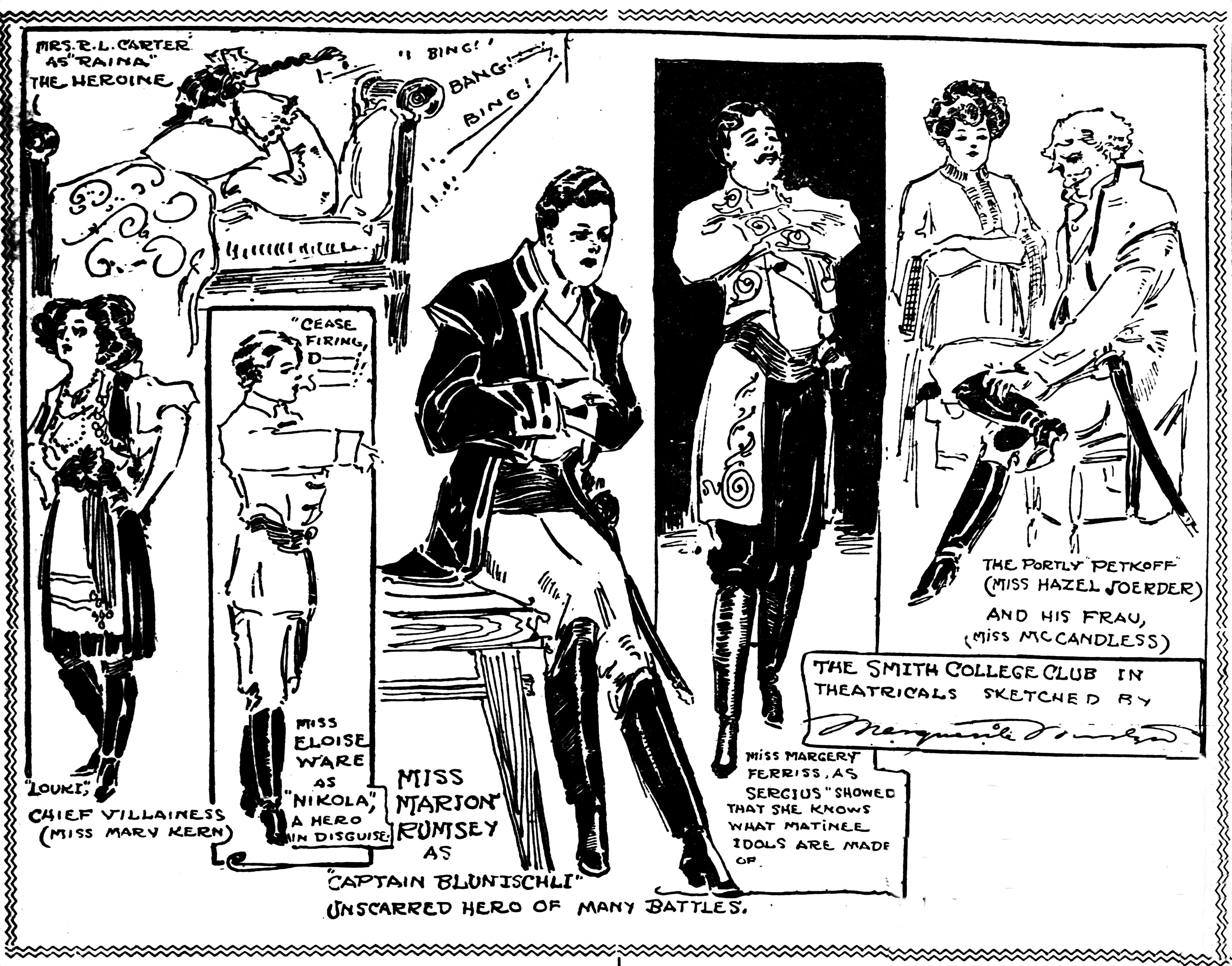 Sketch by Marguerite Martyn of women who are taking all the roles in Shaw's Arms and the Man in a benefit performance of the Smith College Club of St. Louis. Top left is Mrs. R.L. Carter. Others are, left to right, Mary Kern, Eloise Ware, Marion Rumsey, Margaret Ferris, and Hazel Soerder. Swear words are indicated by dashes. No men were allowed to see the show. Sketch was published in the St. Louis Post-Dispatch of December 13, 1908, along with a story by Martyn.